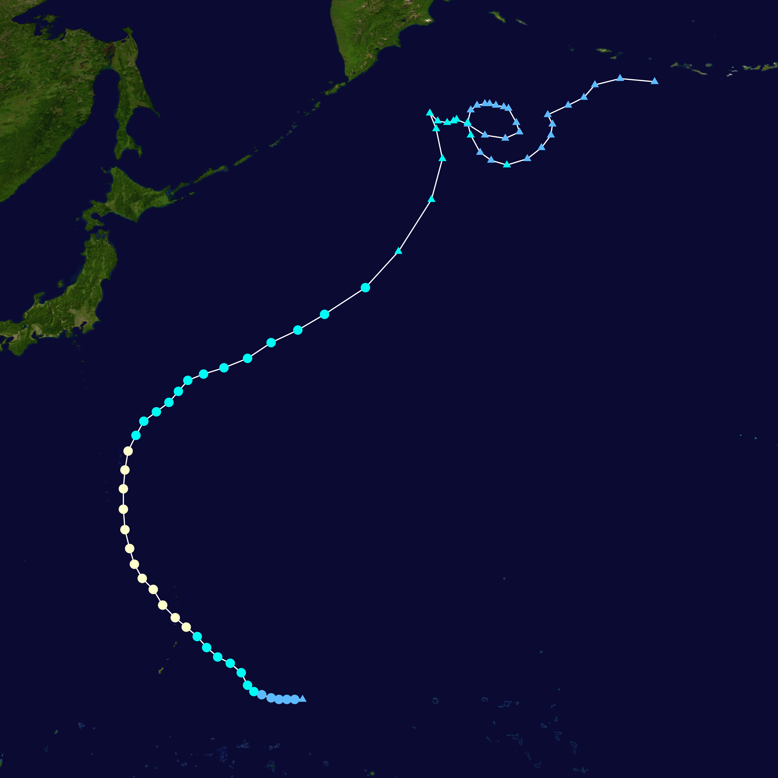 Typhoon Tingting (2004) track. Uses the color scheme from the Saffir-Simpson Hurricane Scale.